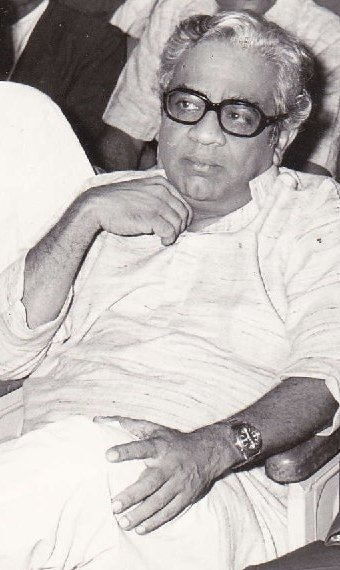 Suresh Joshi with Marathi writer P. L. Deshpandey, at the age of 55, at Vadodara, Gujarat.